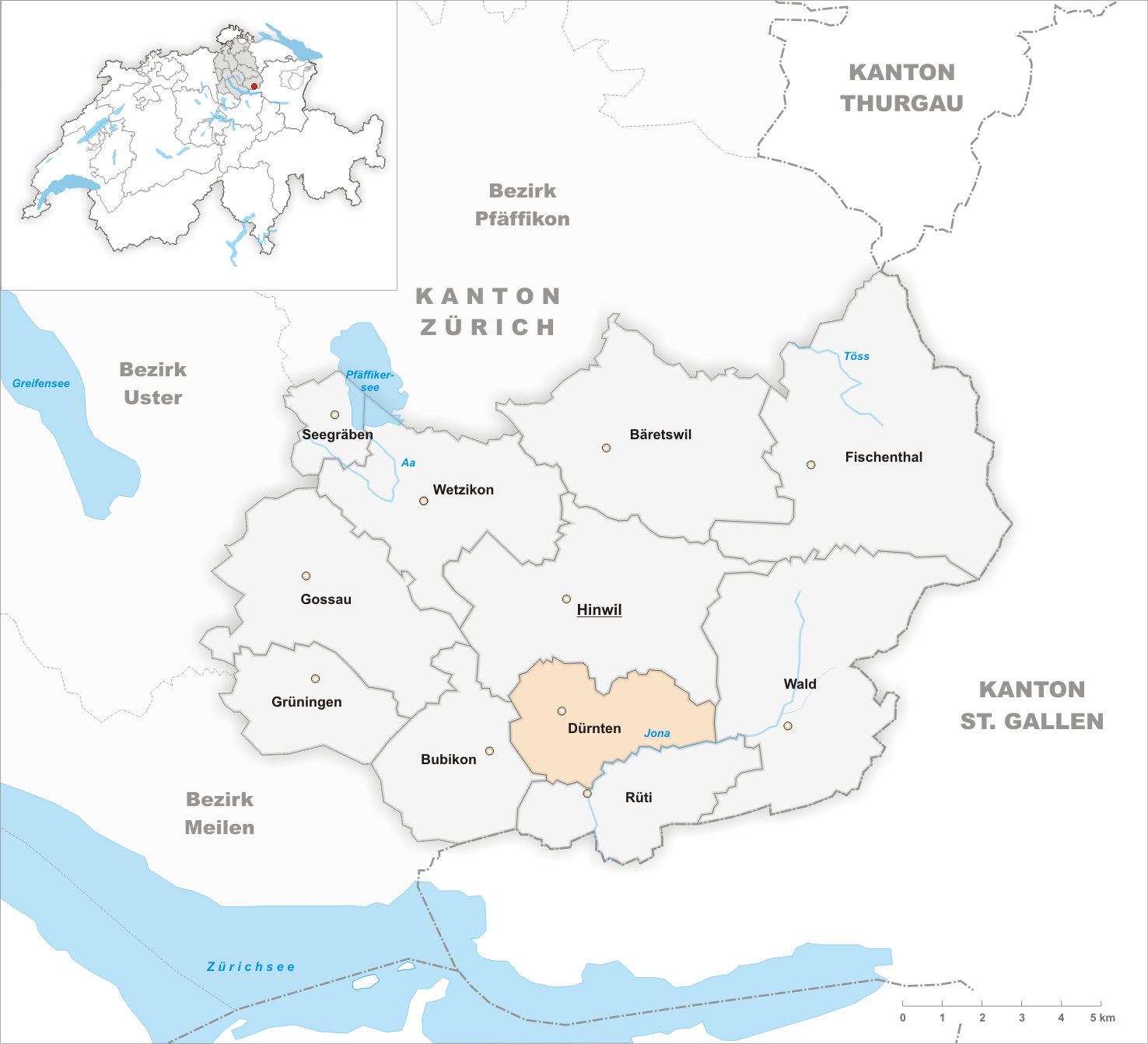 Municipality Dürnten